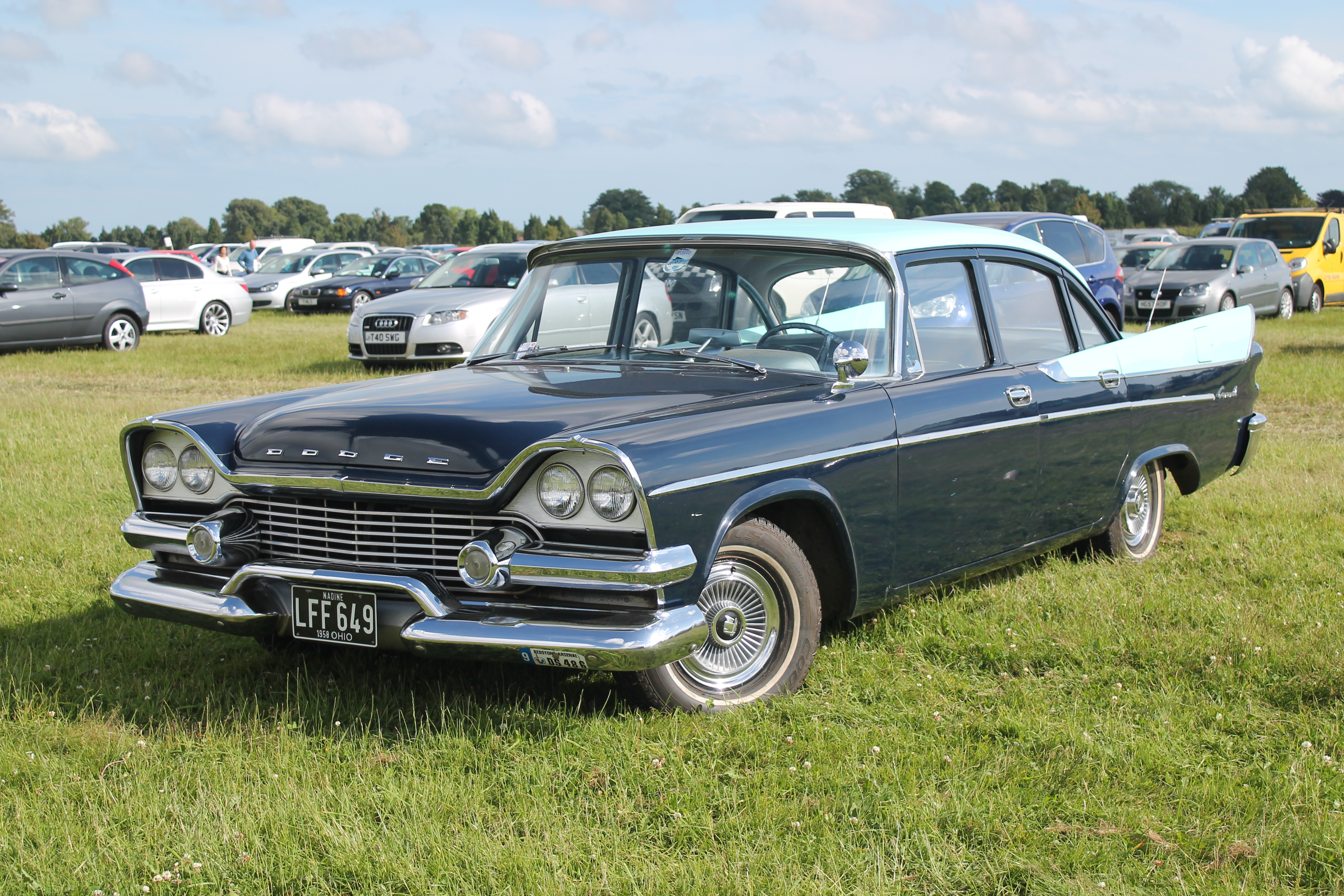 This cut a shape in a car park full of dull 21st century Euro-rubbish. Amazed this wasn't in the show itself, it was very nice indeed. I do like old American cars like this. Imported 20 years ago in 1994. The vehicle details for LFF 649 are: Date of Liability 01 04 2015 Date of First Registration 10 10 1994 Year of Manufacture 1958 Cylinder Capacity (cc) 5700cc CO₂ Emissions Not Available Fuel Type PETROL Export Marker N Vehicle Status Licence Not Due Vehicle Colour BLUE Vehicle Type Approval Not Available